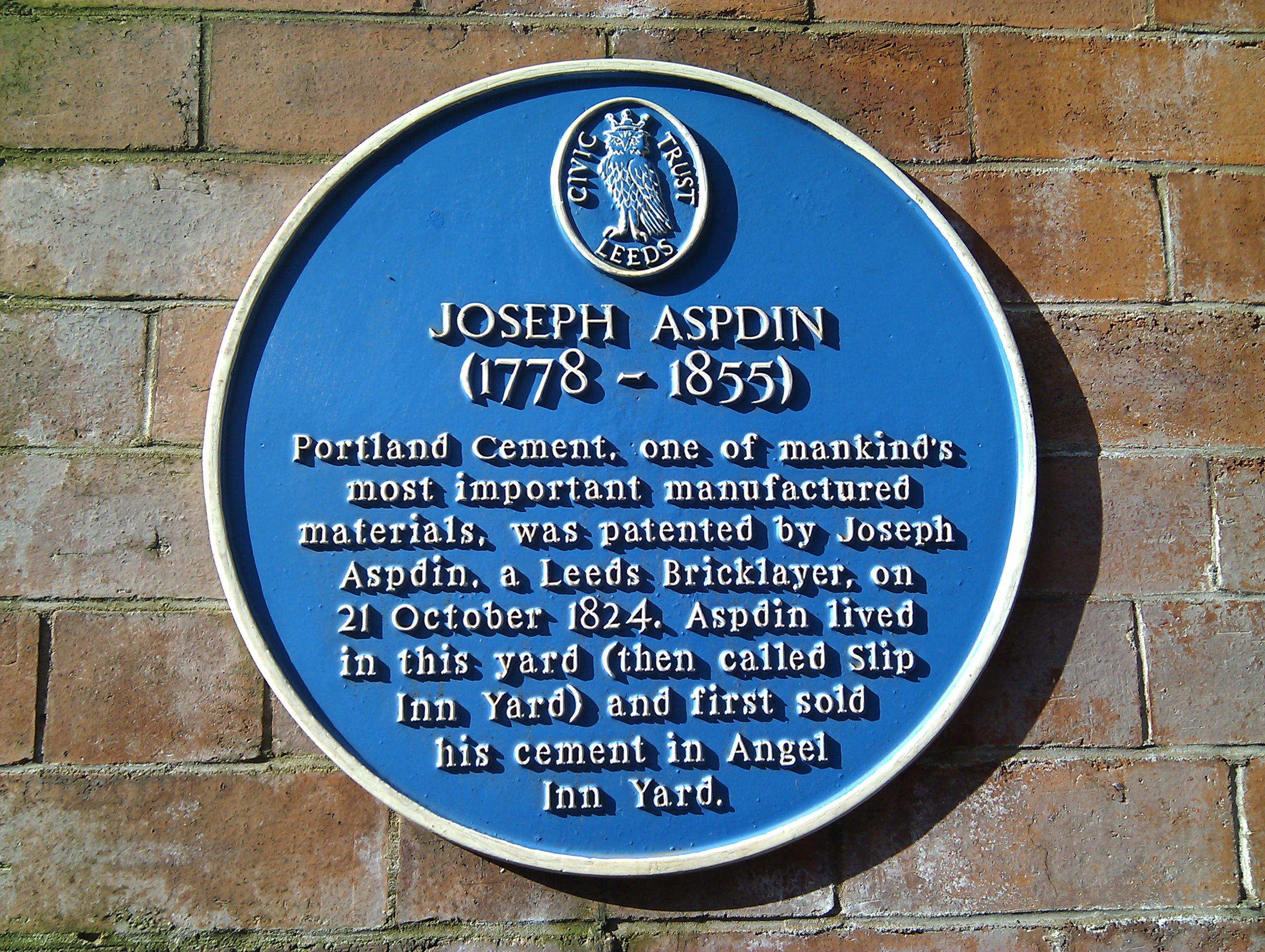 "JOSEPH ASPDIN (1778 - 1855) Portland Cement, one of mankind's most important manufactured materials, was patented by Joseph Aspdin, a Leeds Bricklayer, on 21 October 1824. Aspdin lived in this yard (then called Slip Inn Yard) and first sold his cement in Angel Inn Yard." CC0 To the extent possible under law, Ben Dalton has waived all copyright and related or neighbouring rights to this photo. You can link back to this page if you would like to credit Ben for taking the photo, but you don't have to. However, if you would like to embed the copy of this photo that is hosted on Flickr in outside web sites, you must follow Flickr's hosting guidelines.